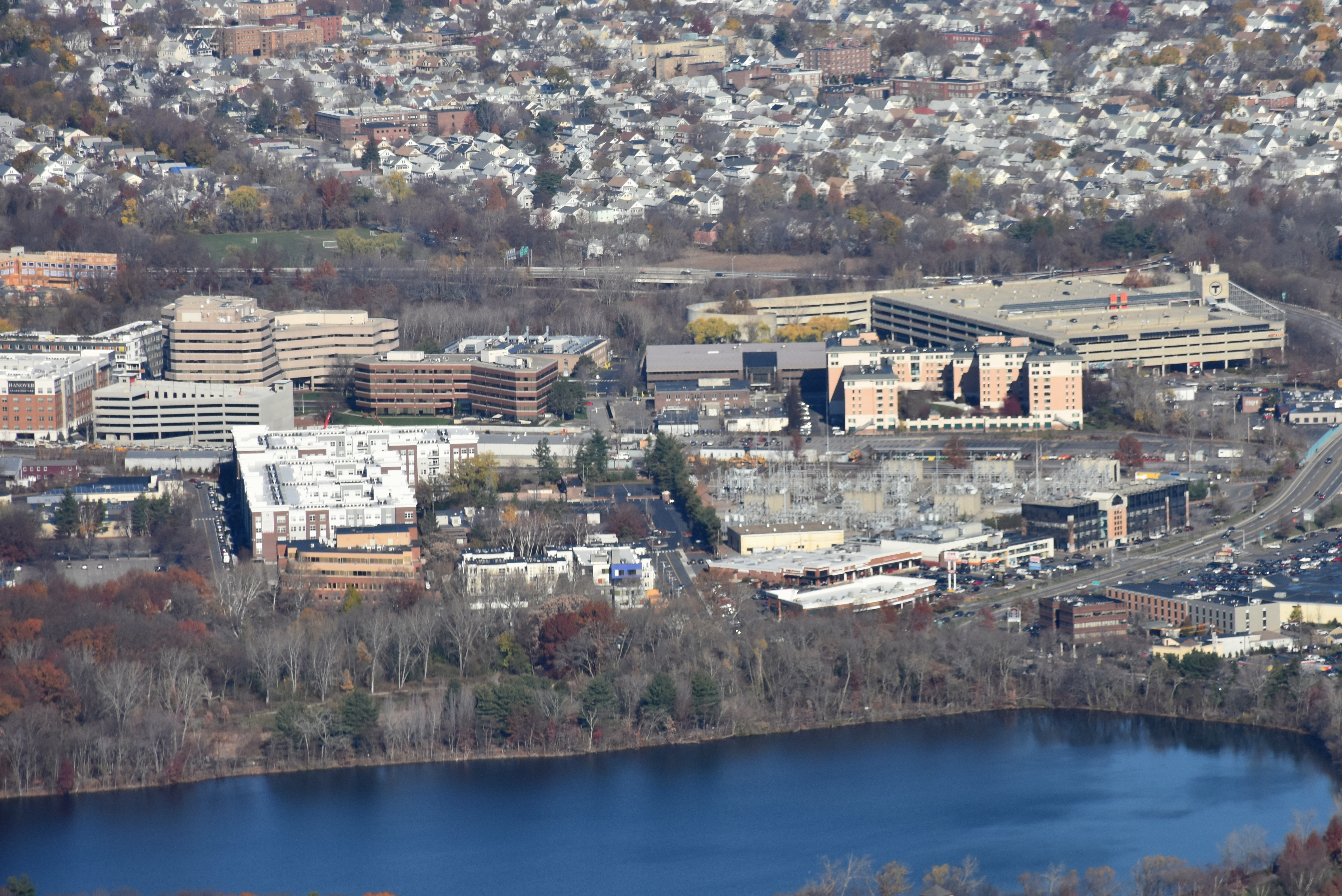 Aerial view of Cambridge Highlands in Cambridge, Massachusetts. Includes Alewife MBTA station and parts of Fresh Pond.